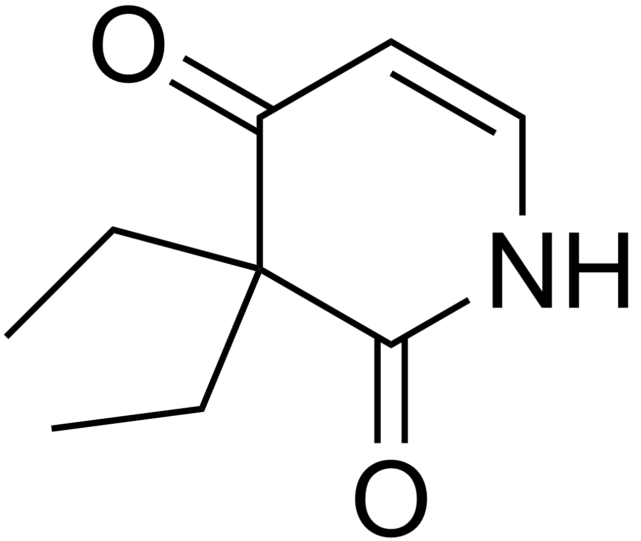 chemical structure of pyrithyldione